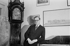 Polyakov Leonid Mikhailovich (21 August 1906 - June 19 1965) was an Soviet architect. Among his projects are mentioned some Metro stations in Moscow: Kurskaja-Radialnaya, Arbatskaya, Oktjabrskaja Koltsevaya- el 'Leningrad hotel, which is one of the seven skyscrapers Moscow 's Stalin period known as the Seven Sisters.